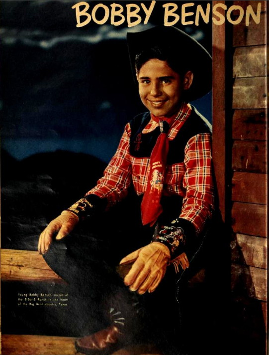 The Bobby Benson character was portrayed in this image in Radio TV Mirrors August 1950 issue.